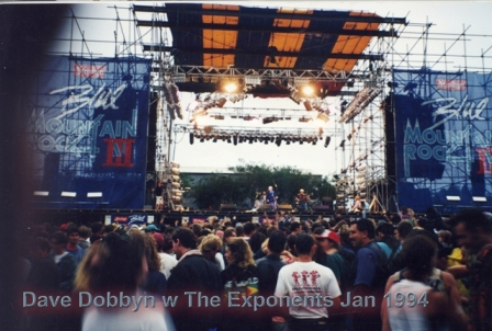 DaveDobbynMountainRock3v1p1p448.jpg - - photo taken and uploaded by Paul Moss, Photographer, Artist, Paul Moss Photographer Artist NZ